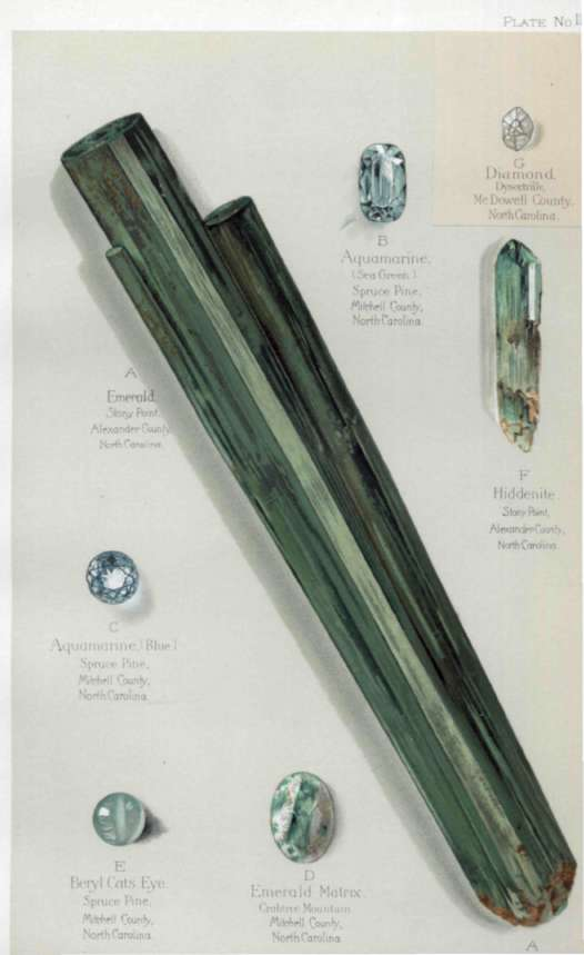 George Frederick Kunz, History of Gems Found in North Carolina, Raleigh, 1907.